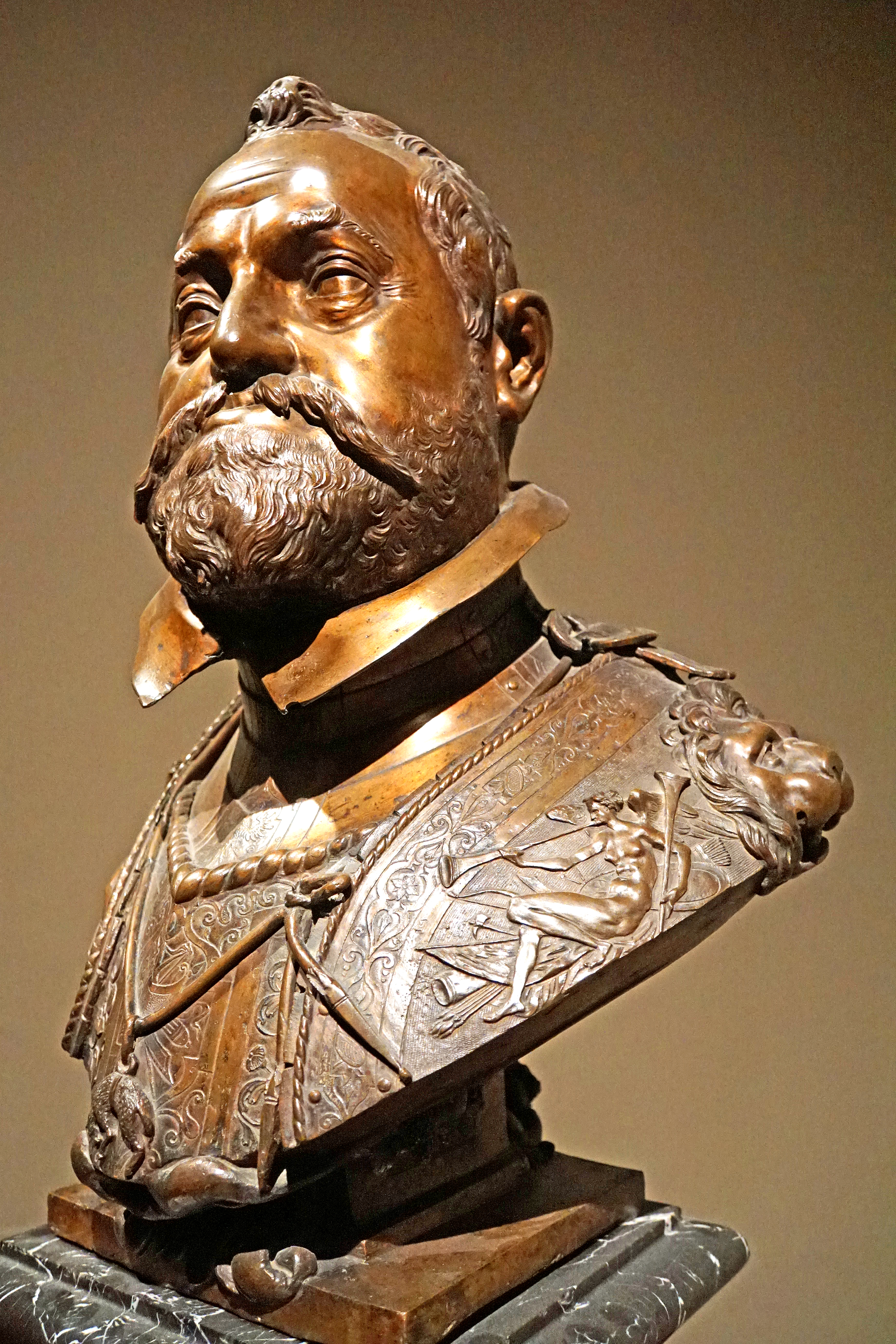 Emperor Rudolph II (1552-1612)